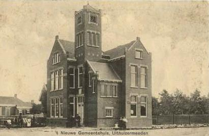 postcard Uithuizermeeden gemeentehuis